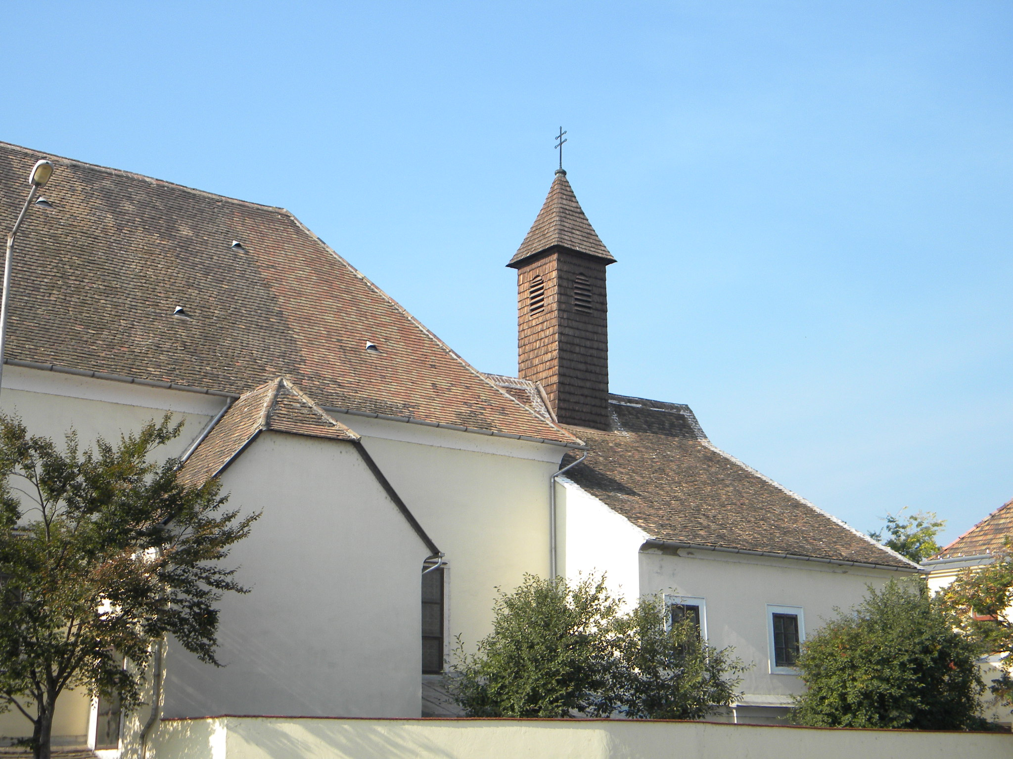 Location: Hungary, Tata This is a photo of a monument in Hungary, Identifier: 6405